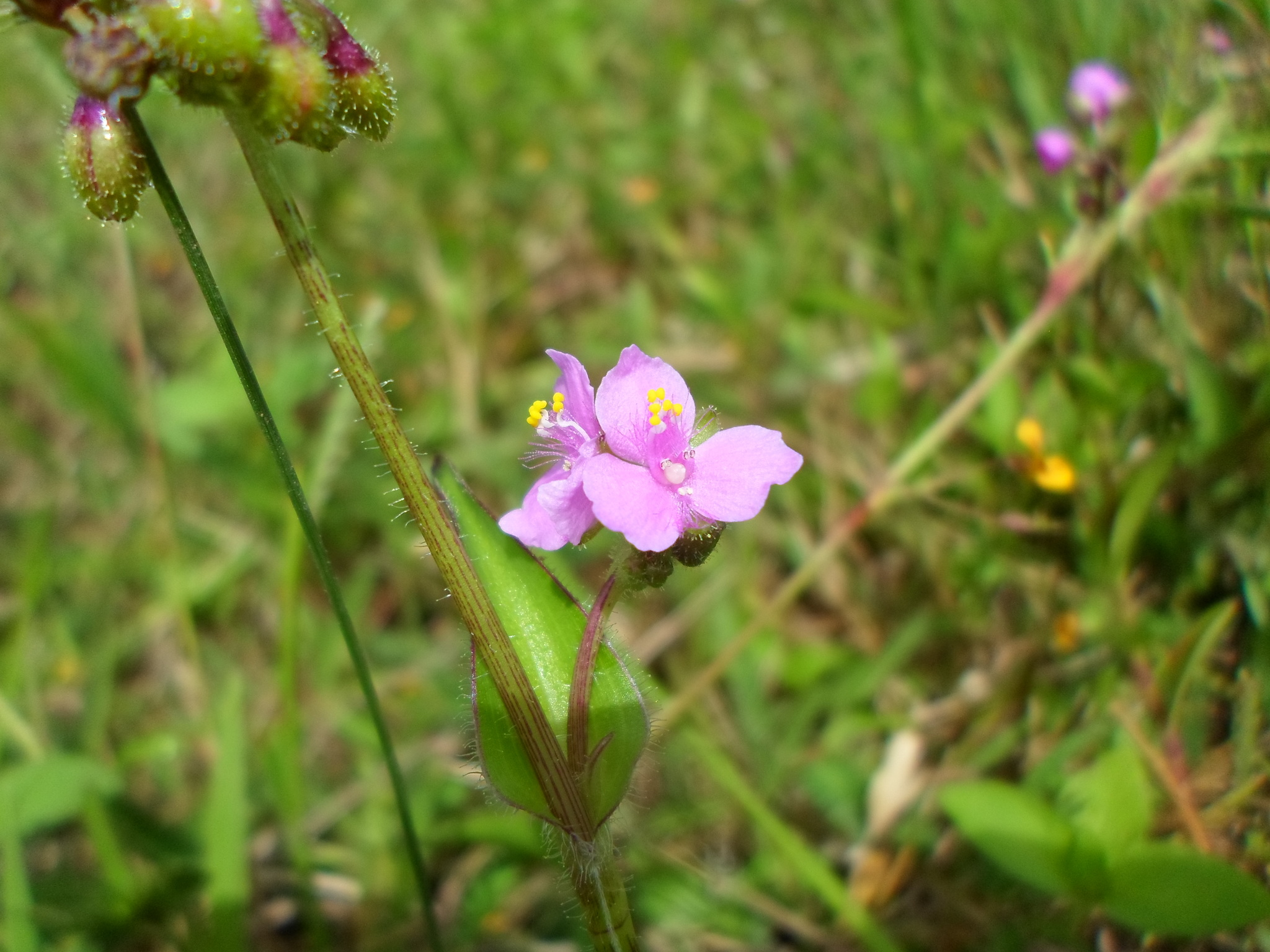 Tripogandra purpurascens. Species of plant.